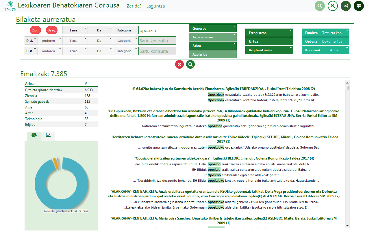 Consultation on the use of the word 'oposizo' (opposition) at the Lexicon Observatory of Basque language.